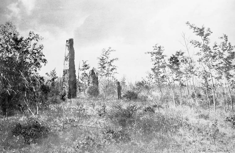 Ruins of Fort Selkirk (Mouth of the Lewis (Yukon River)) Credit: G.M. Dawson / Library and Archives Canada / C-000006